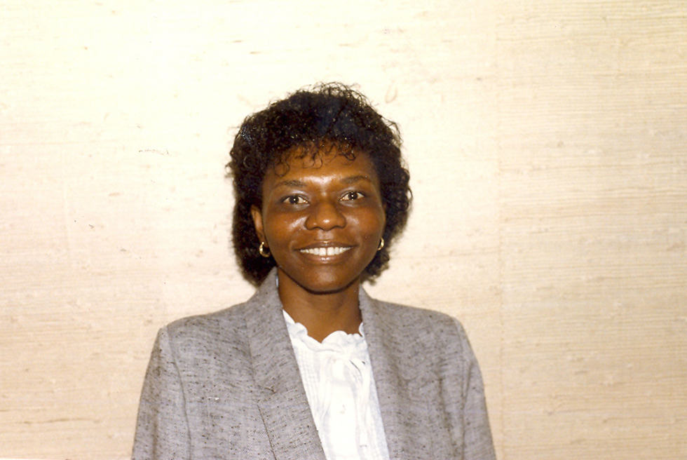 1986 Photo of Charlotte Gilmore Durante, who is the first African American woman City Commissioner of Delray Beach, FL; the first African American licensed Real Estate Agent in Delray Beach and Southern Palm Beach County, FL; and the first African American woman insurance agent in Delray Beach and Southern Palm Beach County; and the frist African American women owner of a State Farm Insurance Agency in Palm Beach County, FL